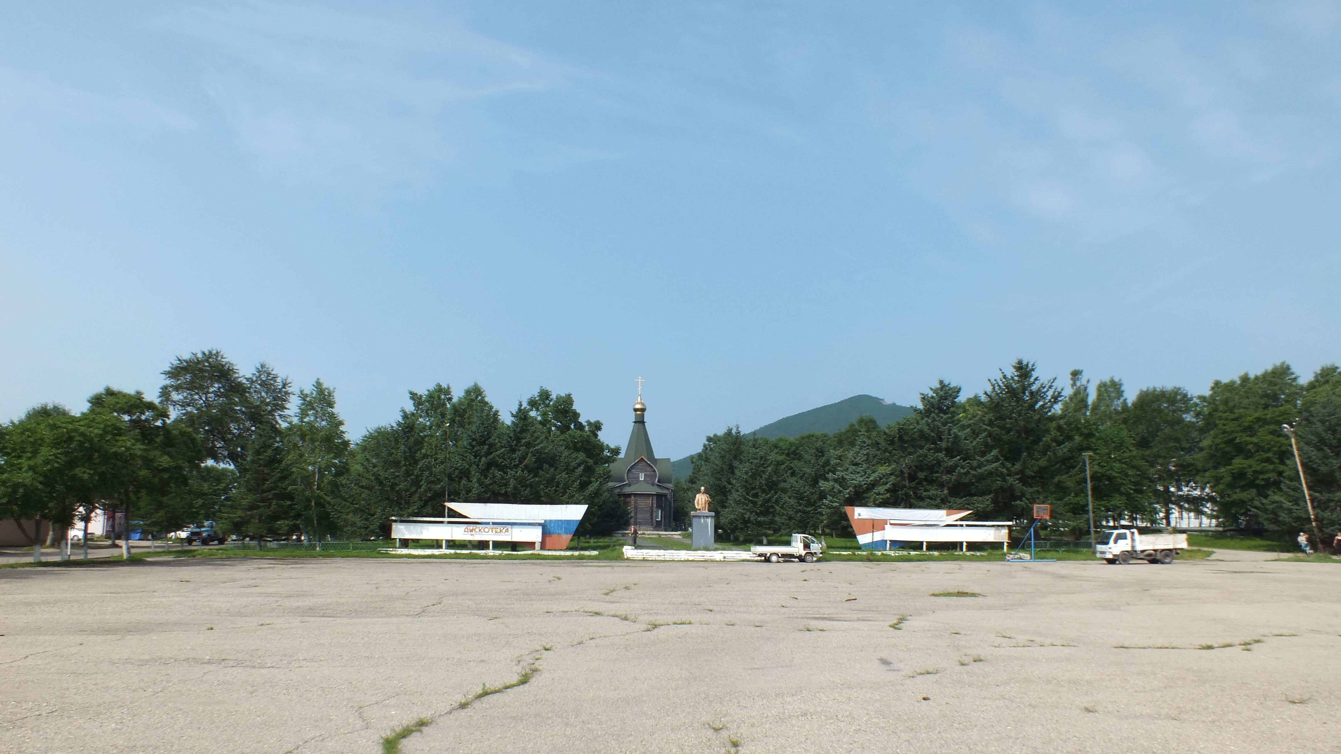 Olga Bay